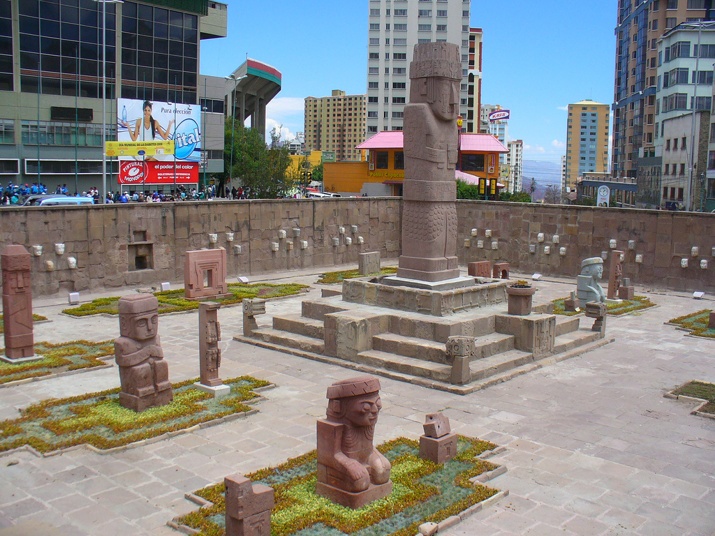 Shoot of the Monolith Reconstruction of Tiwanaku in downtown La Paz.